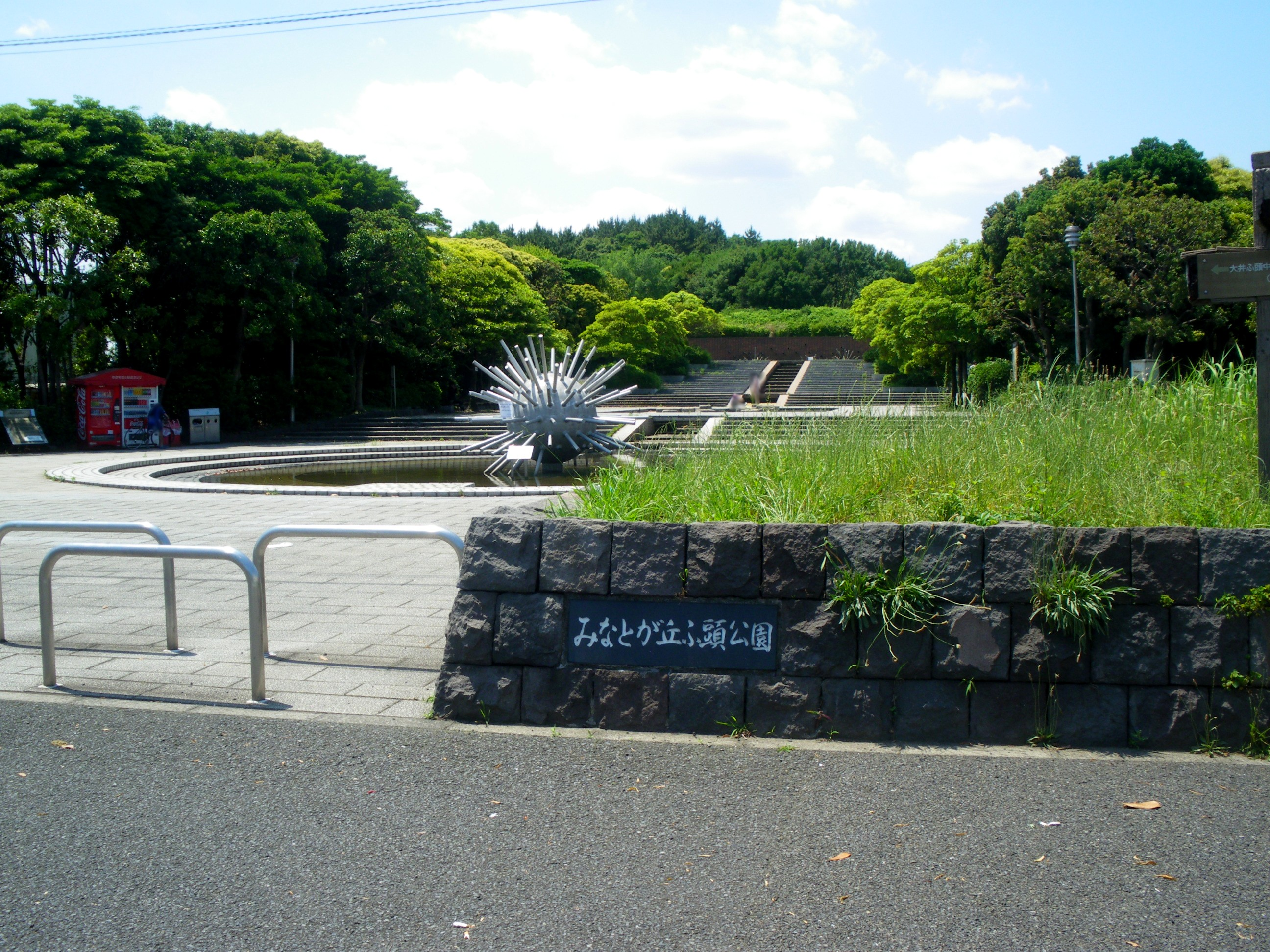 A photo of the entrance of Minatogaoka Futo Park, yashio, Shinagawa-ku, Tokyo, Japan.